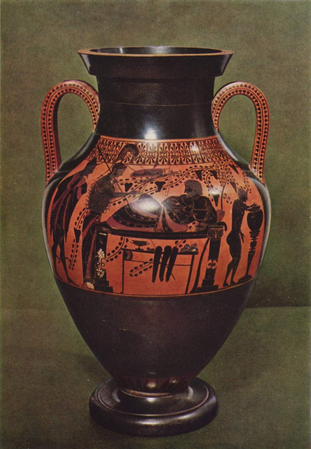 Heracles and Athena. Side B (black-figure) of Attic bilingual amphora, 520–510 BC. From Vulci.